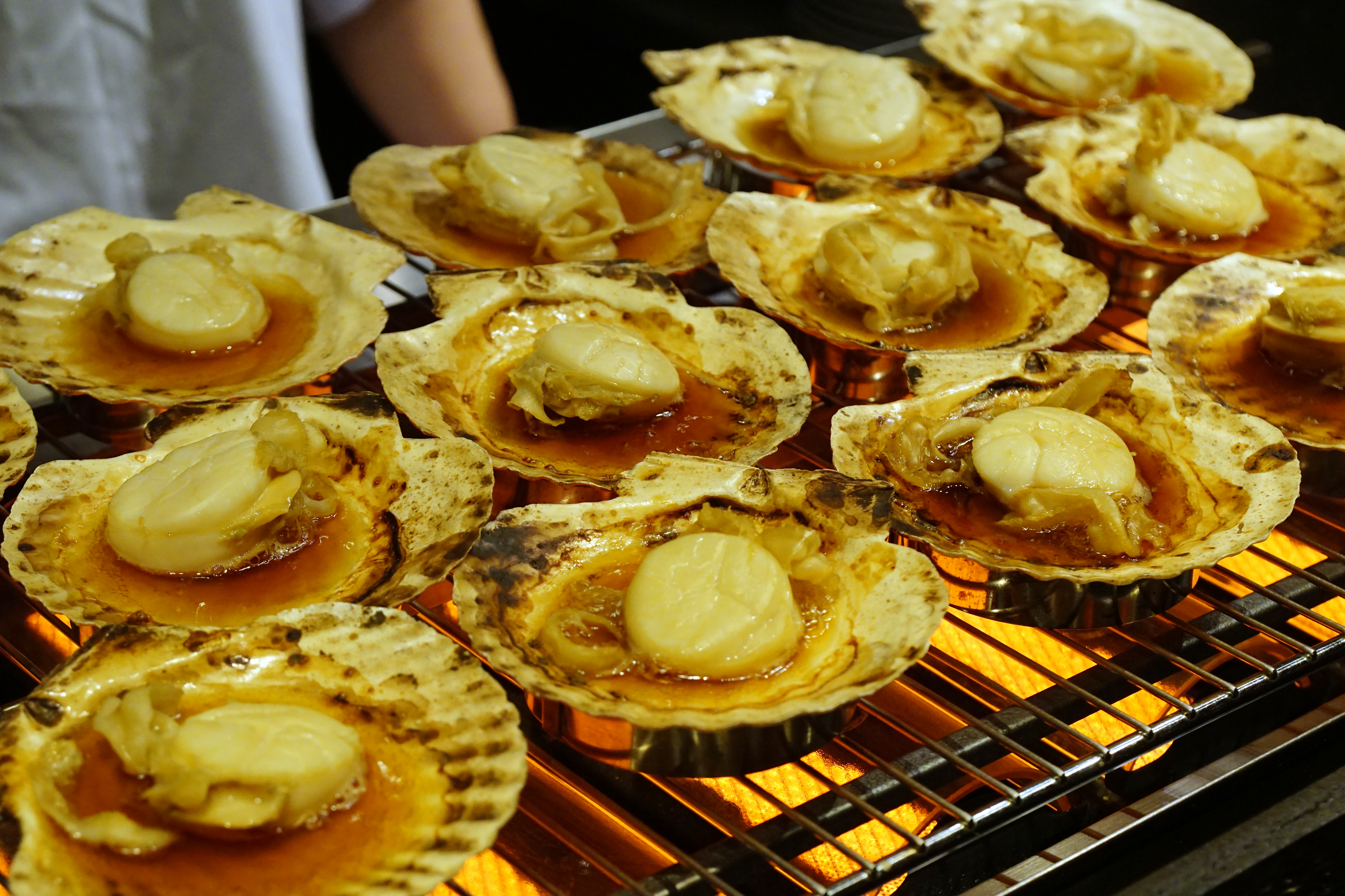 At Hoshino Resort Aomoriya in Misawa, Aomori prefecture, Japan.